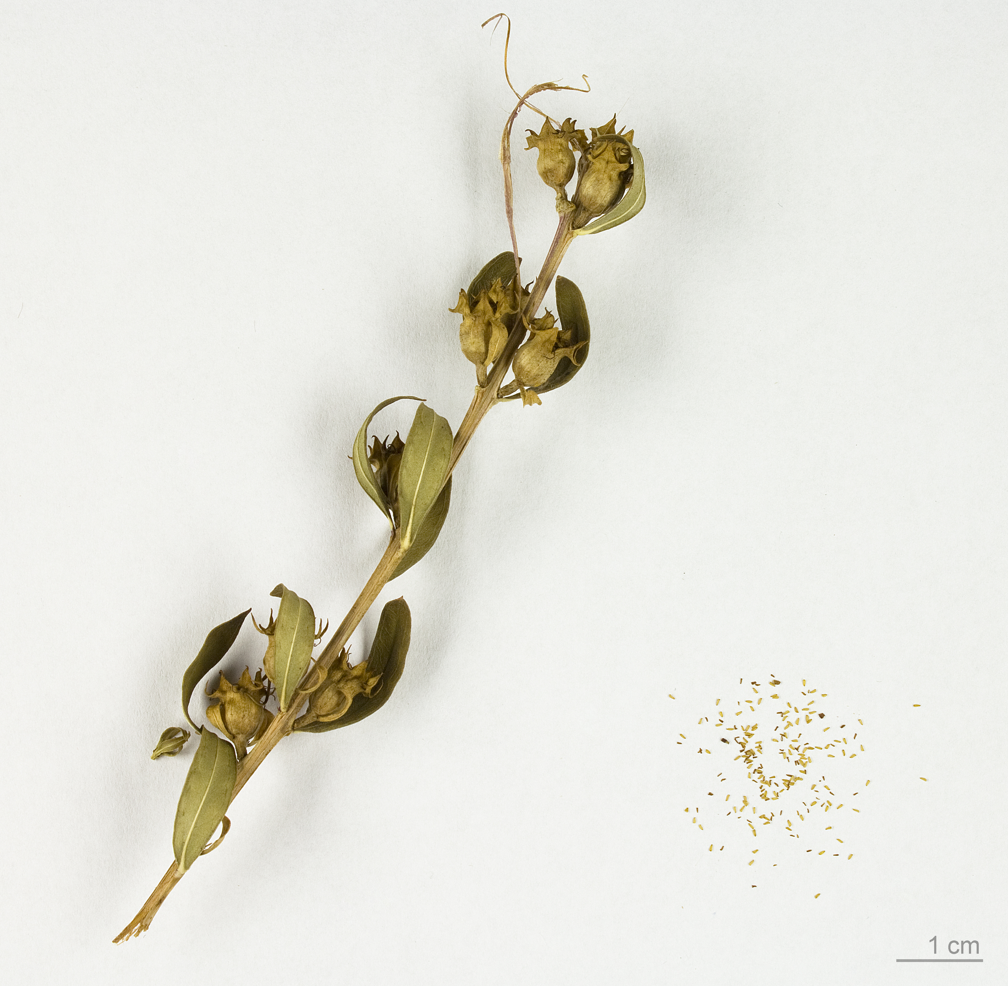 Shrubby Yellowcrest, fruits and seeds